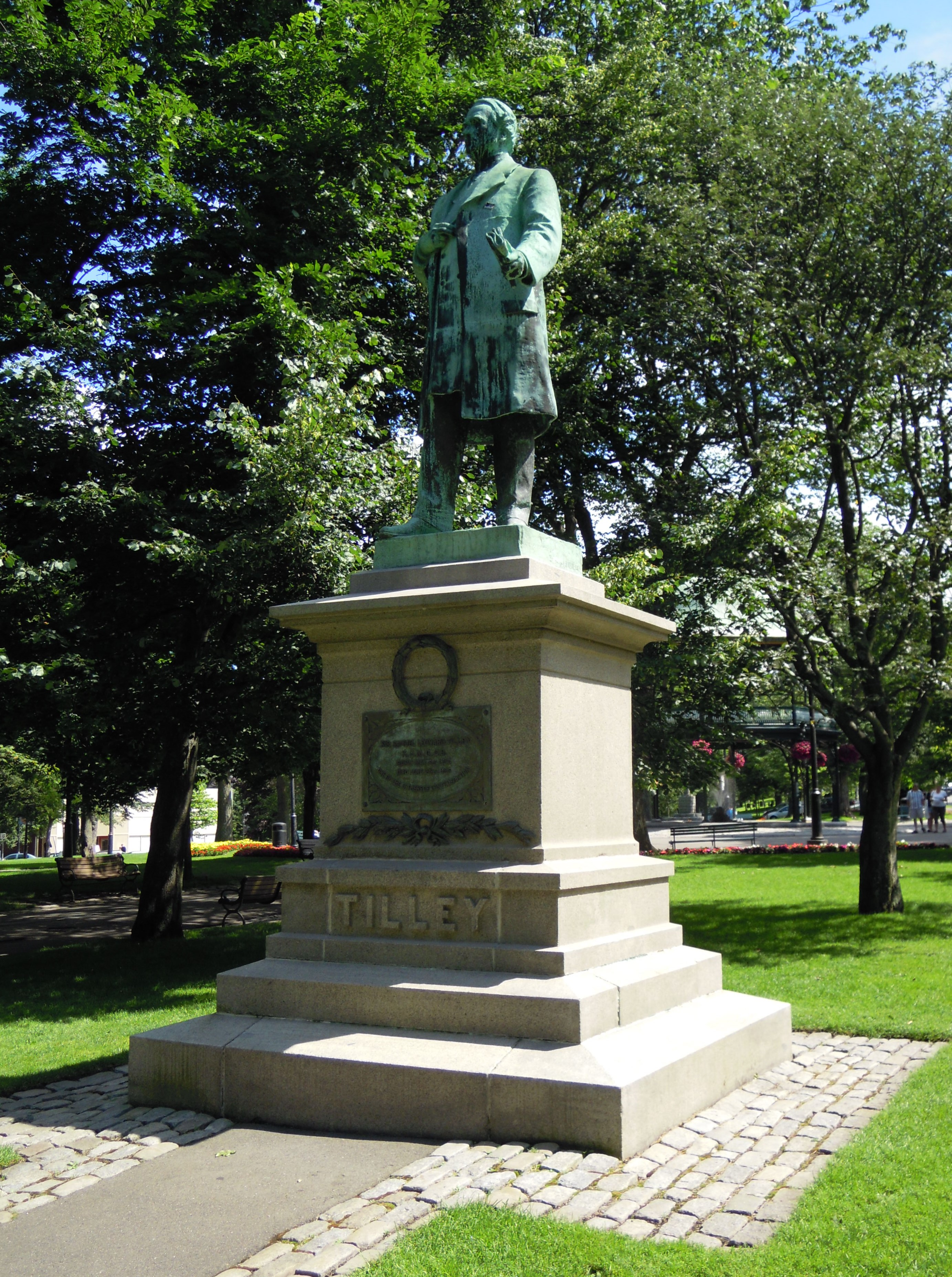 Statue of Samuel Leonard Tilley in King's Square, Saint John, New Brunswick, Canada.